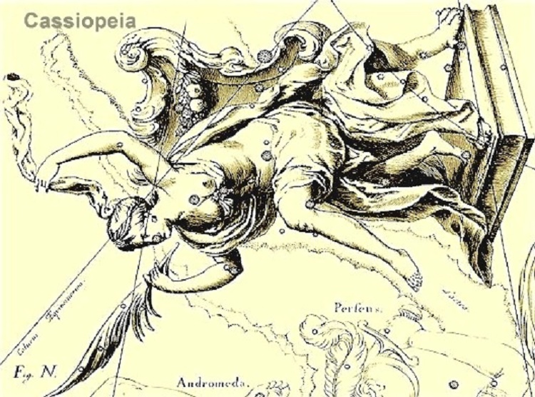 Cassiopeia Constellation